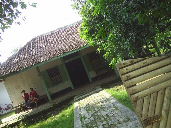 The house where Soekarno and Hatta was kidnapped in Rengasdengklok.